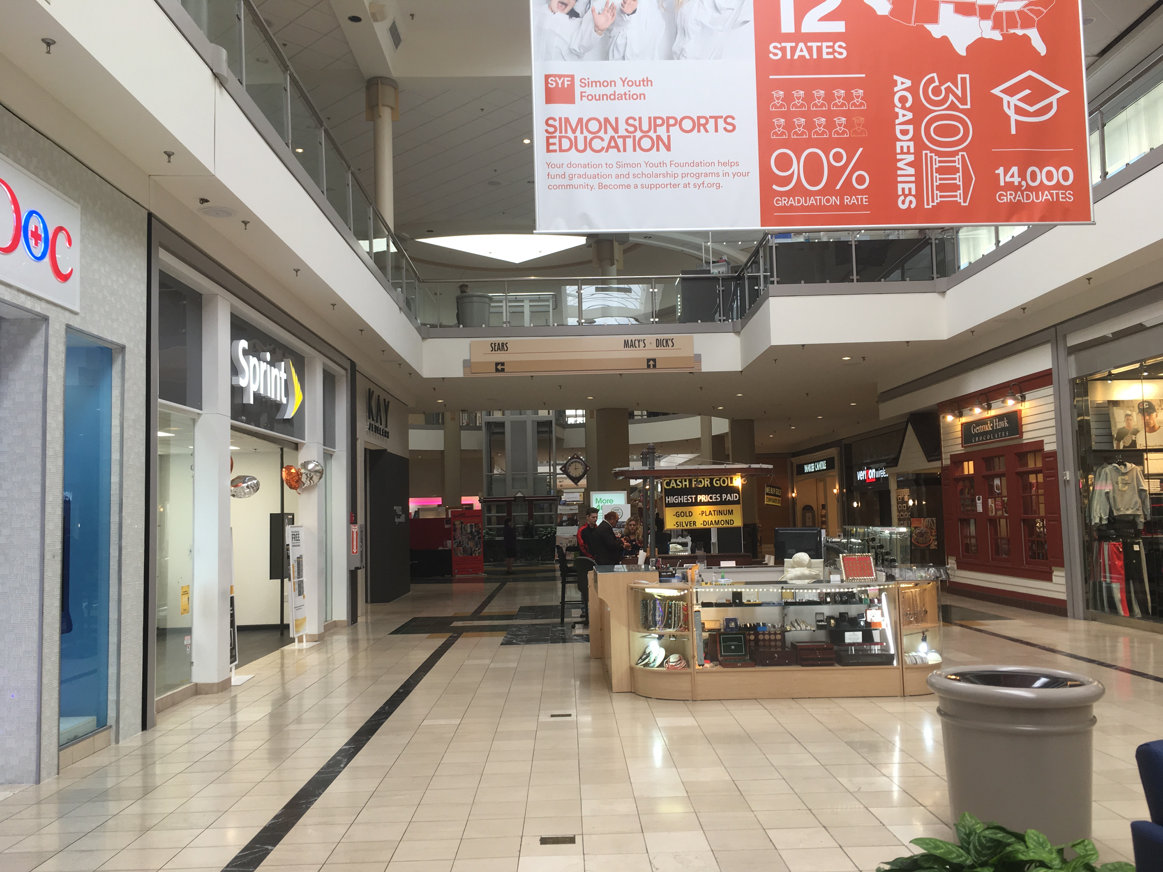 A view of the Montgomery Mall in Montgomery Township, Pennsylvania from the first floor near (now closed) Sears.